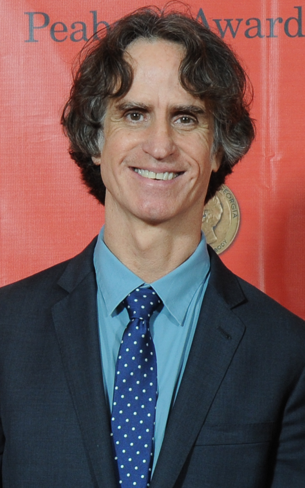 72nd Annual Peabody Awards Luncheon Waldorf-Astoria Hotel May 20, 2013